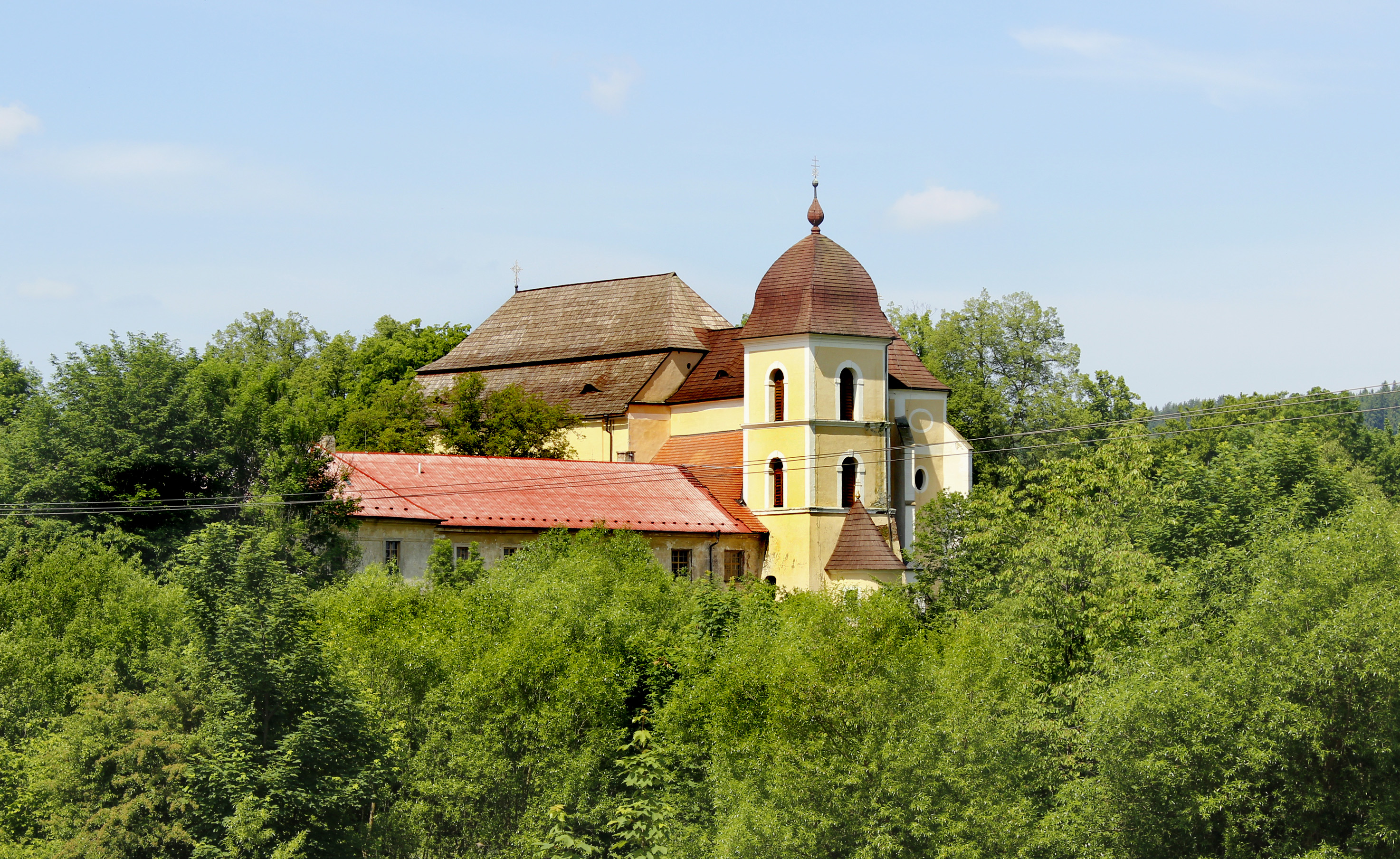 Monastery and Church of the Annunciation in Zaječov, Czech Republic